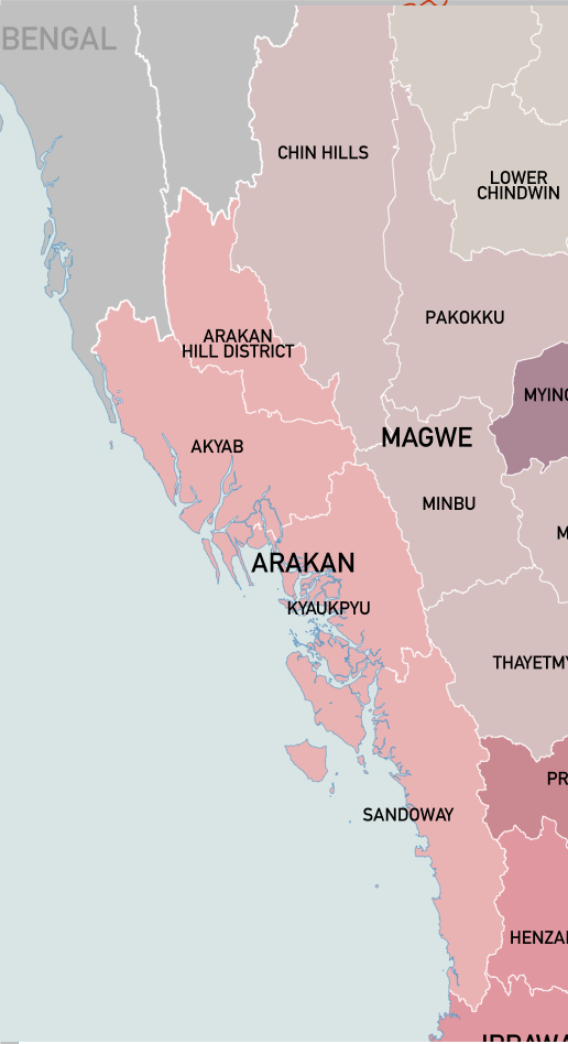 Map of Arakan Division in Burma Province, British India